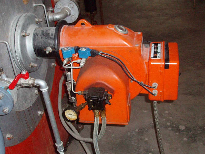 A two-stage light fuel oil burner attached to a 12 bar steam generator.